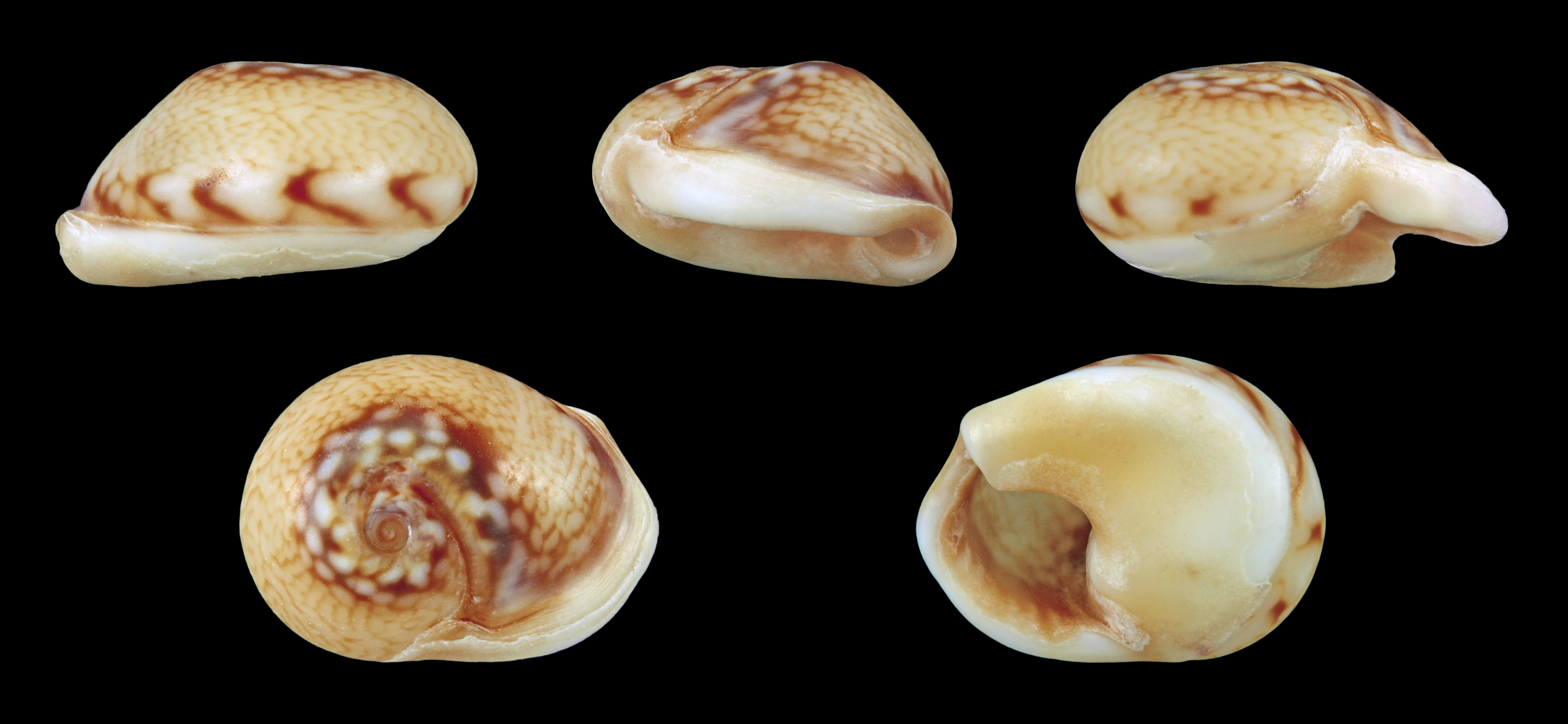 Diameter 1.2 cm; Originating from Port Leucate, Aude, France; Shell of own collection, therefore not geocoded